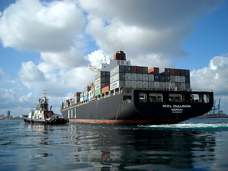 Container ship MOL Cullinan